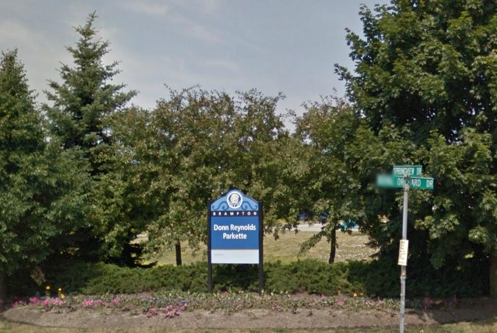 Photograph of name plaque from the Donn Reynolds Parkette in Brampton, Ontario, Canada.